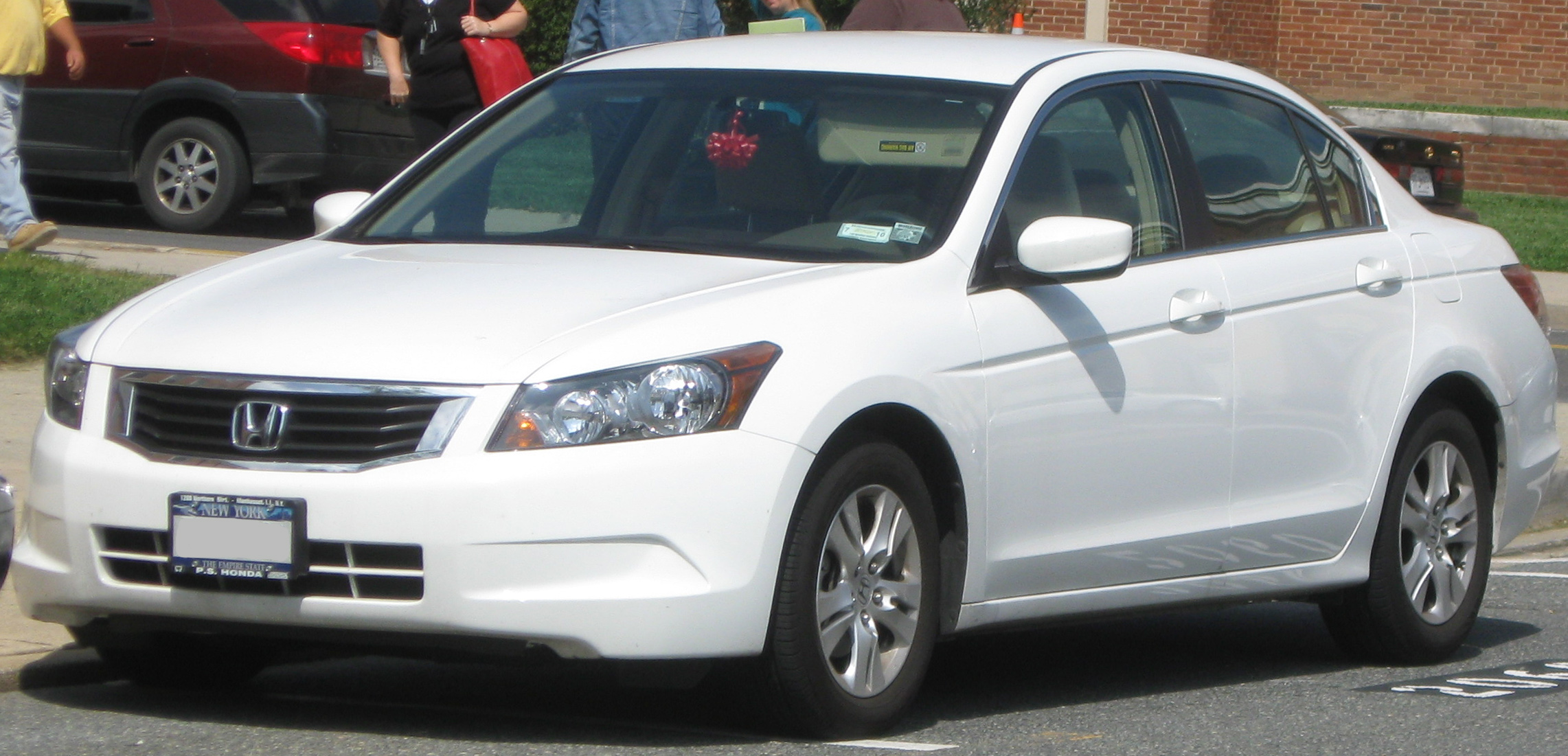 2008-2010 Honda Accord photographed in College Park, Maryland, USA.